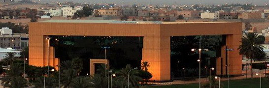 the municipality building of Unaizah